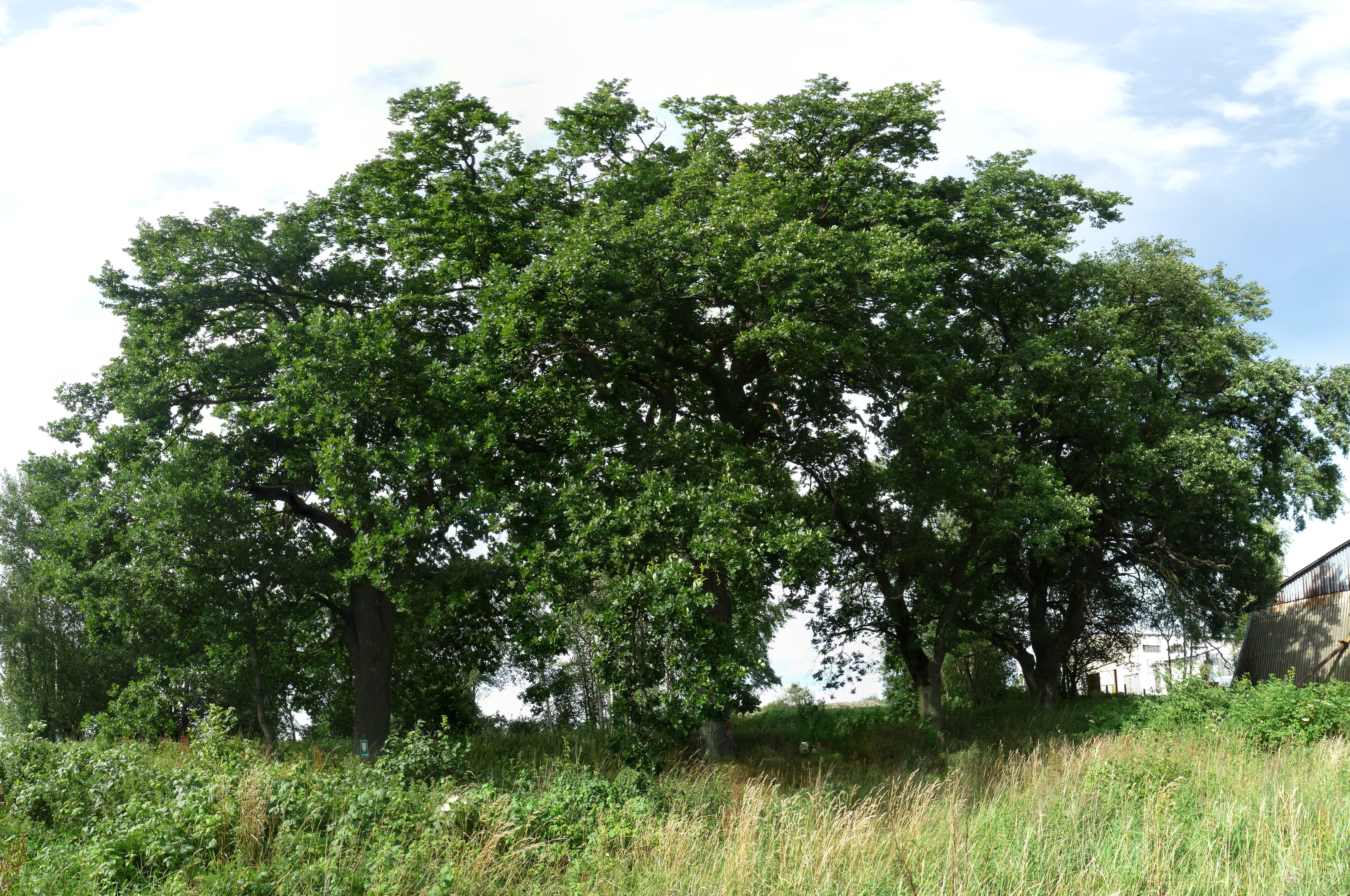 Four famous oak trees in the municipality of Vodice, Tábor District, South Bohemian Region, Czech Republic.